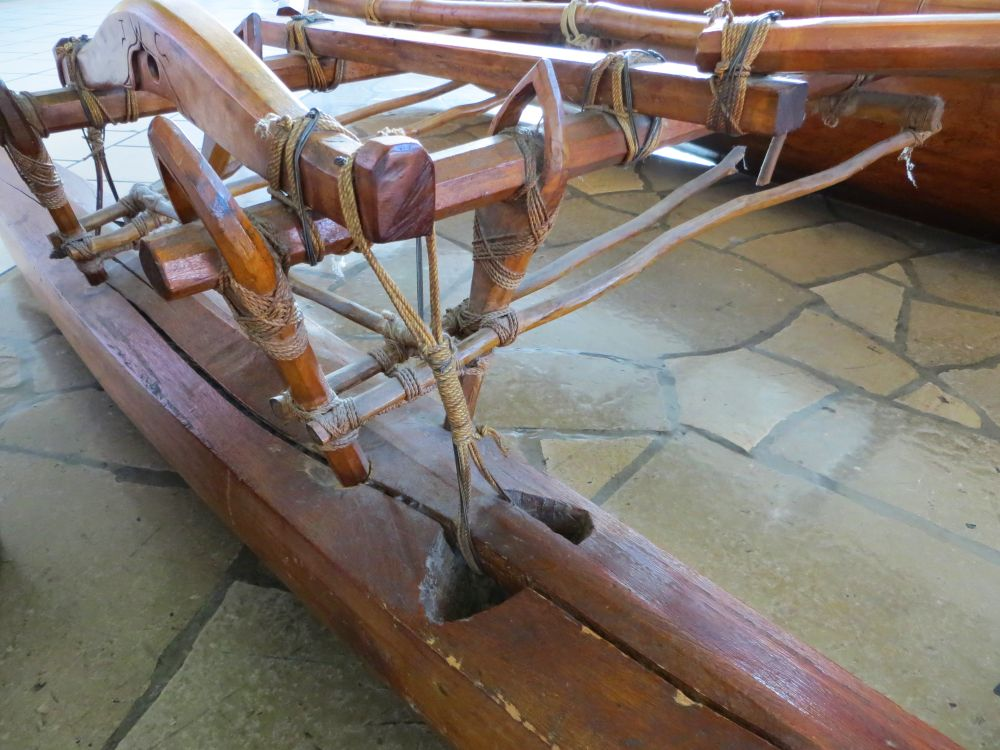 Outrigger of the canoe from Sonsorol laying in the airport of Guam